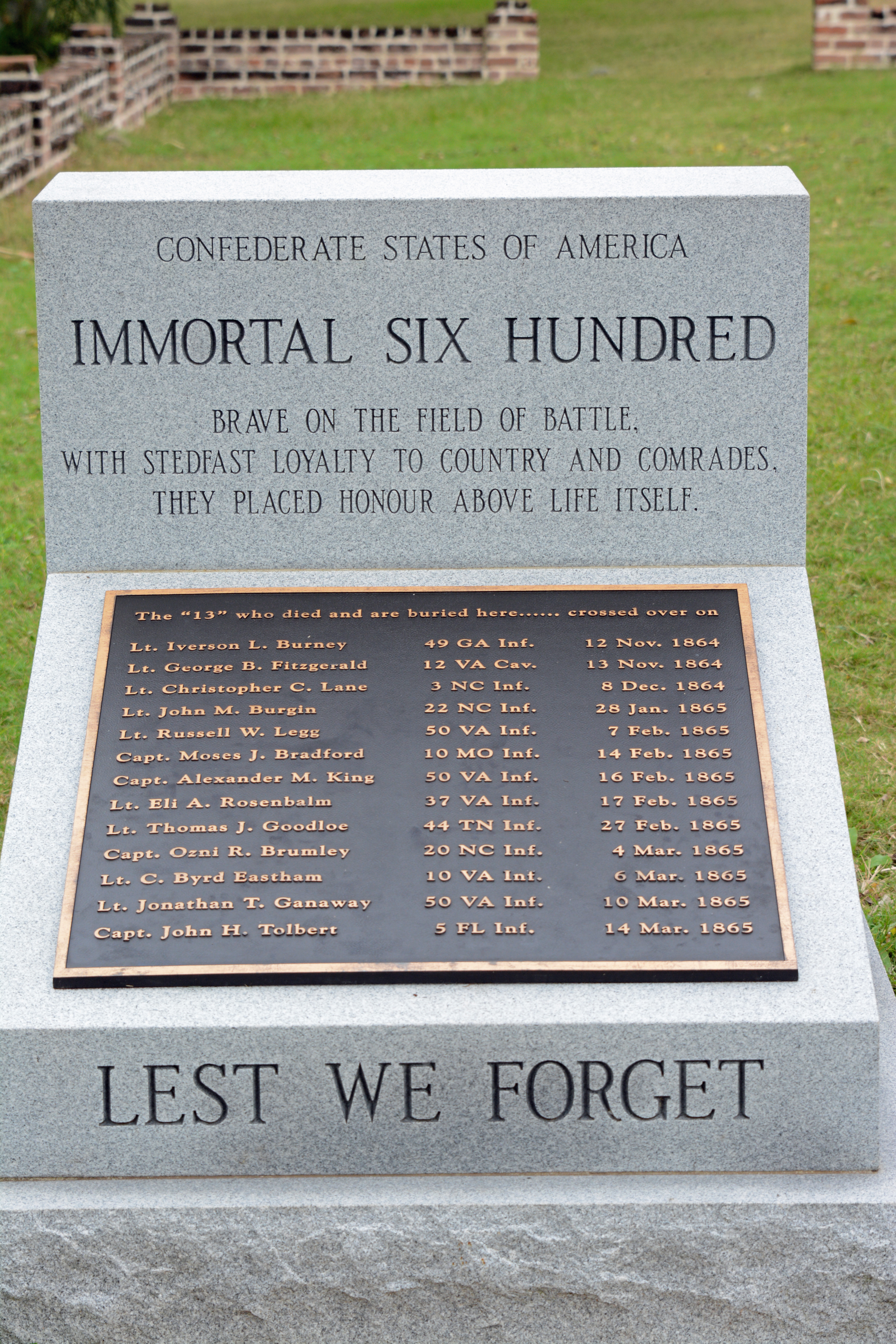 Immortal Six Hundred memorial, at Fort Pulaski National Memorial, Cockspur Island, Chatham county, Georgia, US, erected in 2012 by the Sons of Confederate Veterans